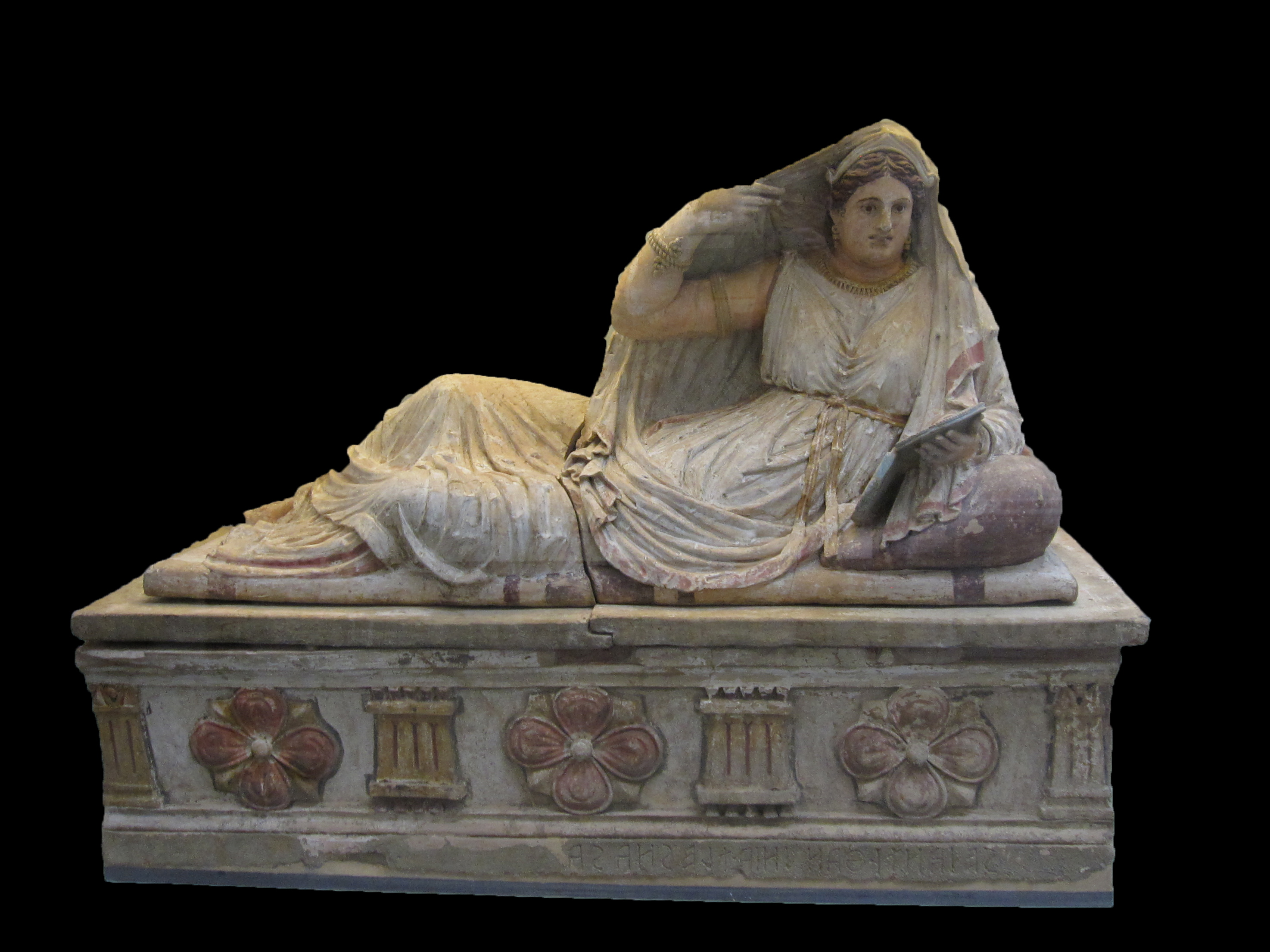 The dead woman, her name inscribed on the base of her chest, was clearly a well-to-do lady. She reclines upon a mattress and pillow, holding an open-lidded mirror in her left hand and raising her right hand to adjust her mantle. She wears a tunic (chiton) with high girdle and a bordered cloa, and her jewellery comprises a tiara, earrings, necklace, bracelets and finger-rings. The skeleton from the sarcophagus was found to belong to a woman who was about fifty years old at the time of her death.